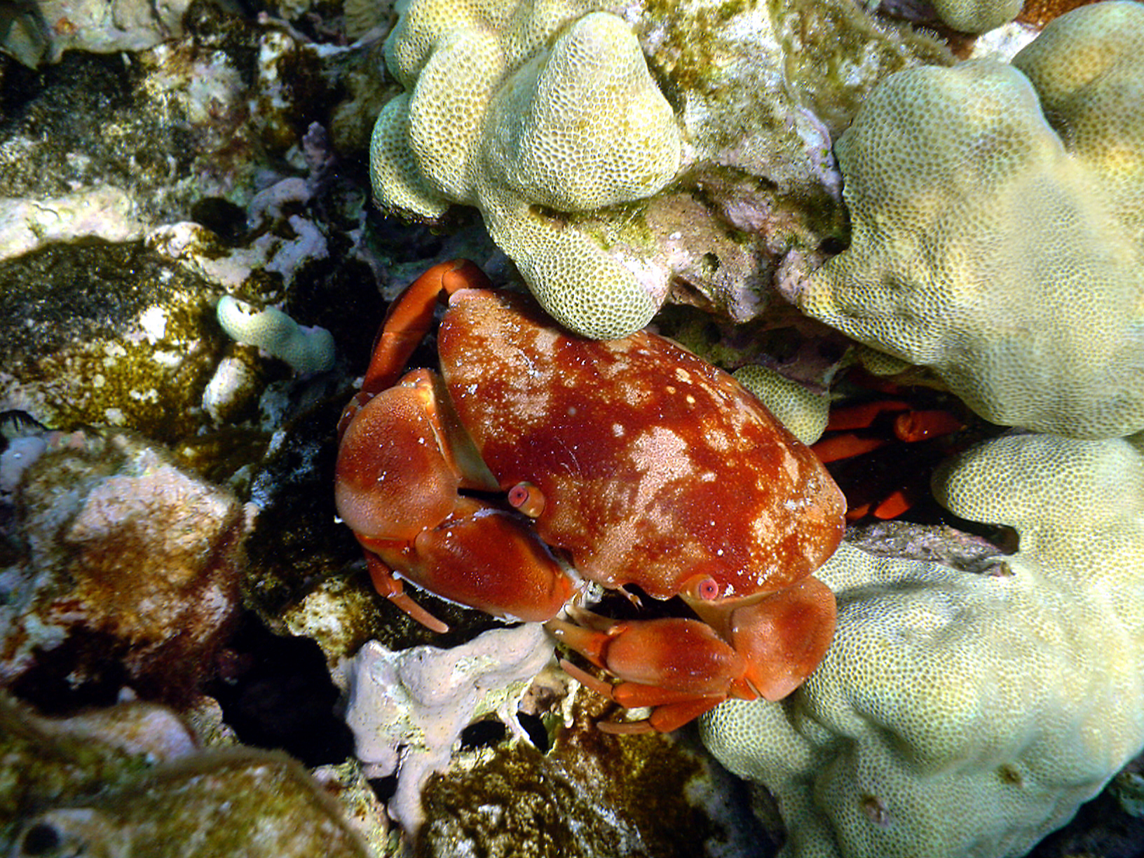 A crab at Big Island of Hawaii, Carpilius convexus This is a retouched picture, which means that it has been digitally altered from its original version. Modifications: Deinterlace and remove Blue + Cyan CA. The original can be viewed here: Crab Carpilius convexus.jpg. Modifications made by Base64.